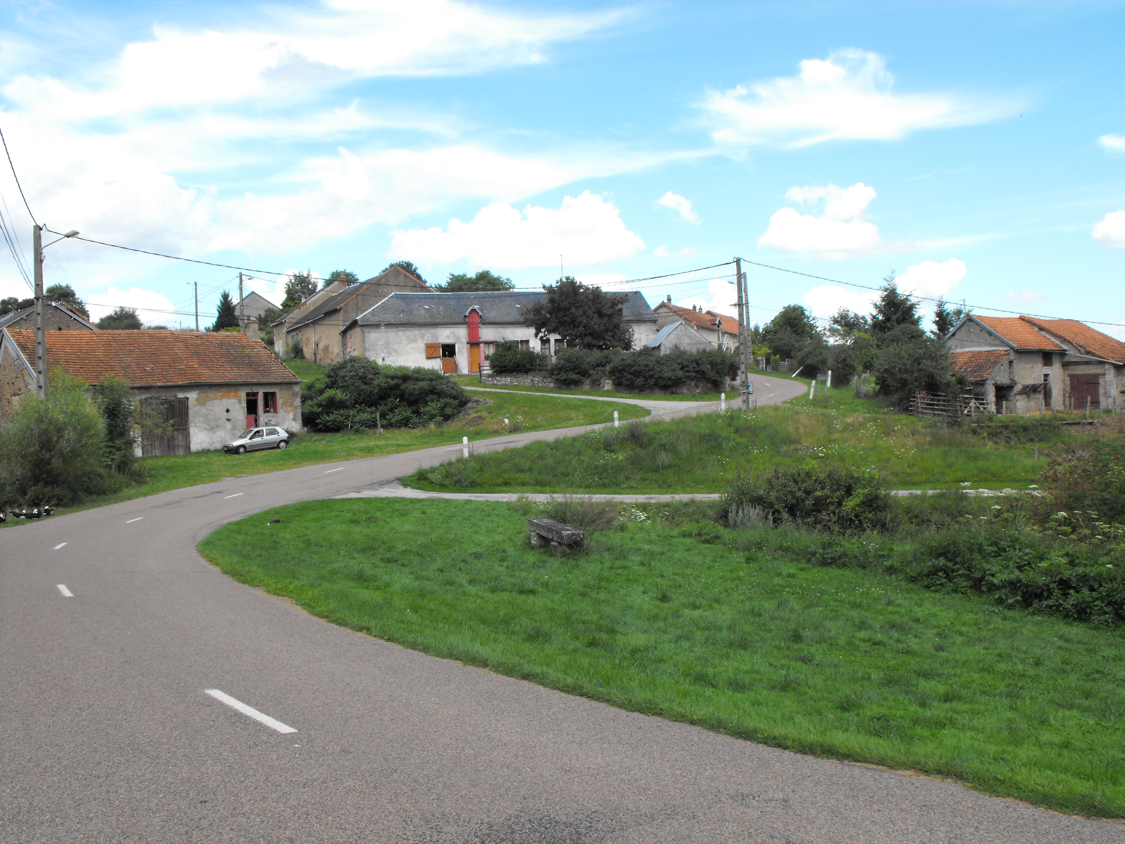 Vue générale de Villiers-en-Morvan, Coted'or, Bourgogne.